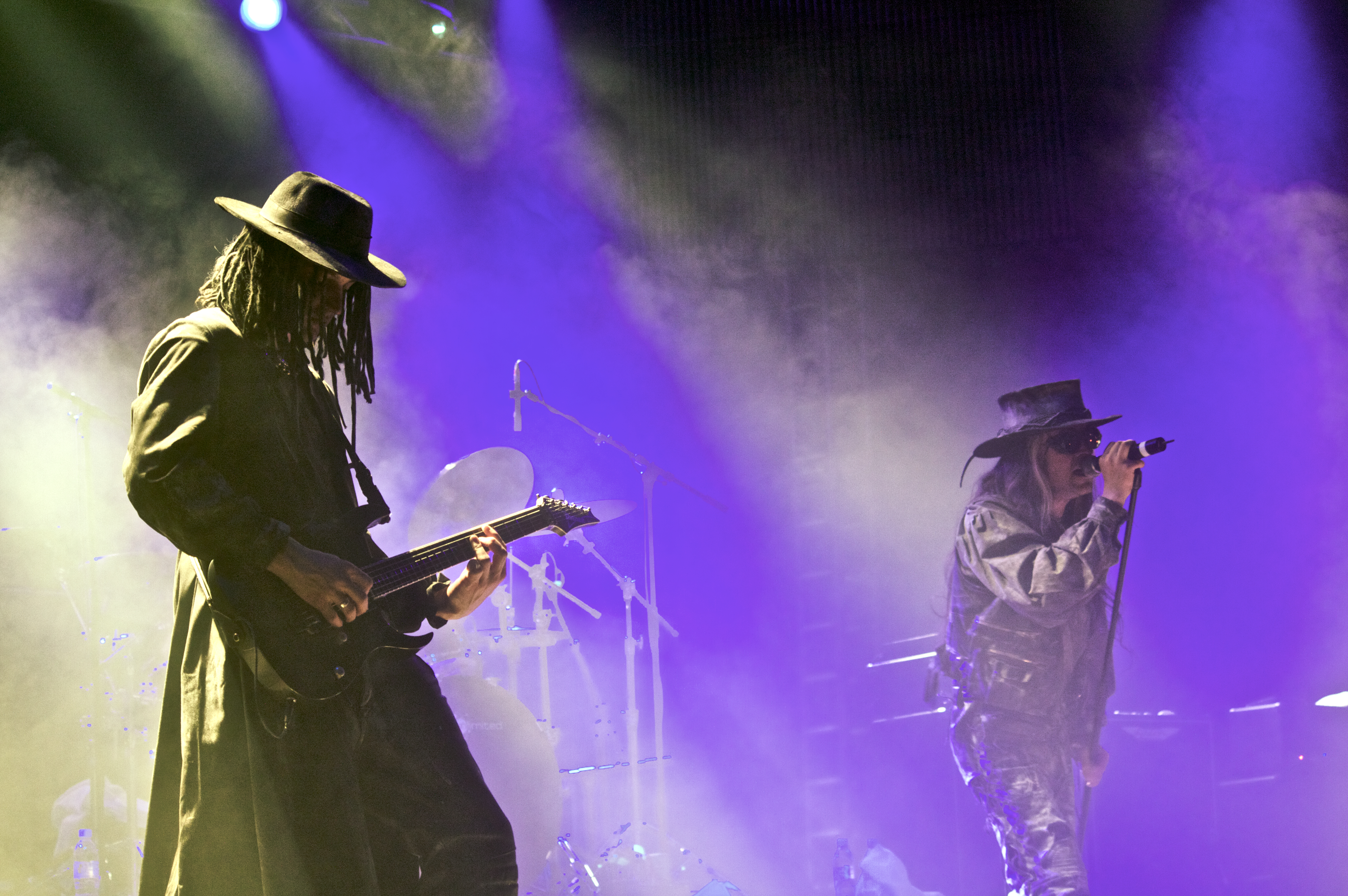 Fields of the Nephilim, live at WGT 2008